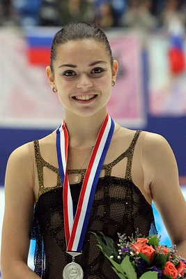 Adelina Sotniкova at the Cup of China 2013